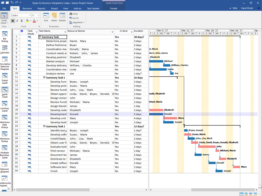 A A screenshot of Seavus Project Viewer 15 running on Microsoft Windows. The given view is Resource Name